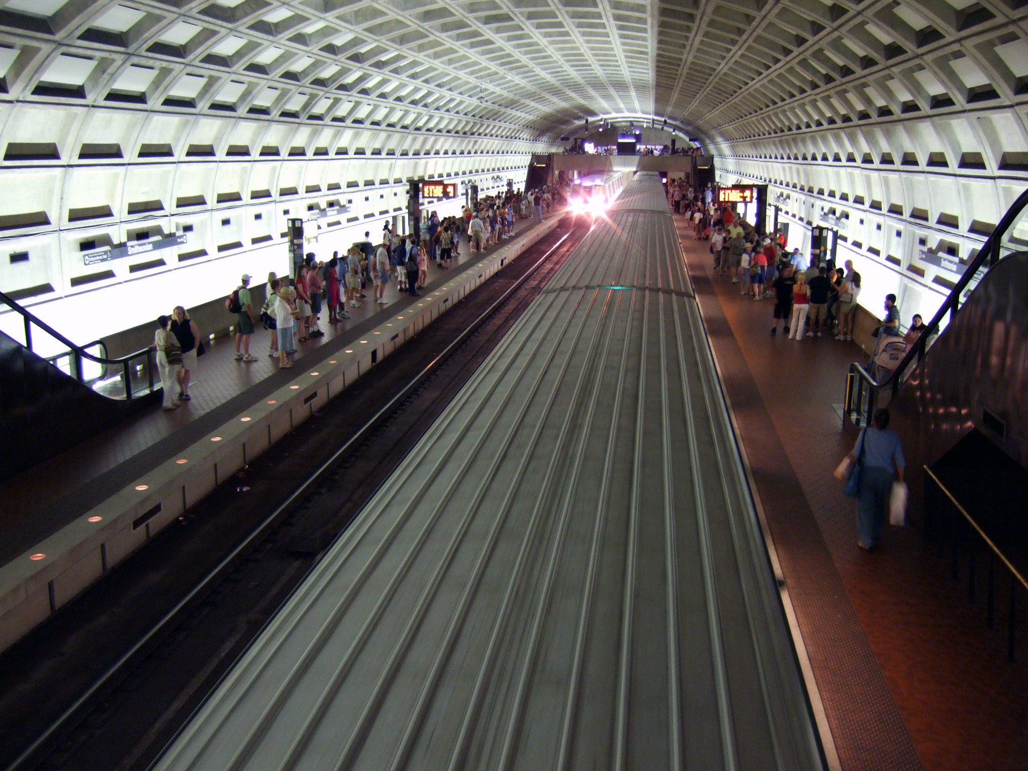 Train arriving at Smithsonian Metro station in Washington DC.